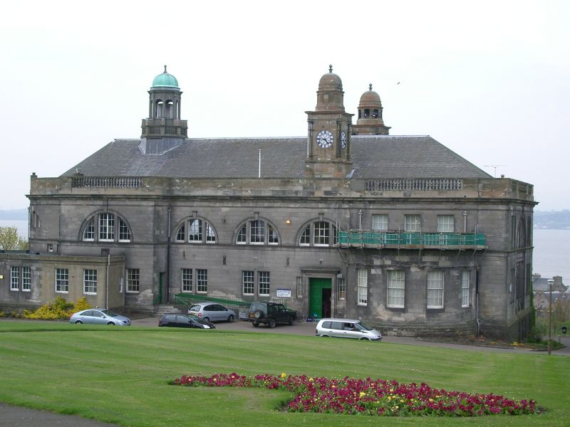 Bo'ness Town Hall